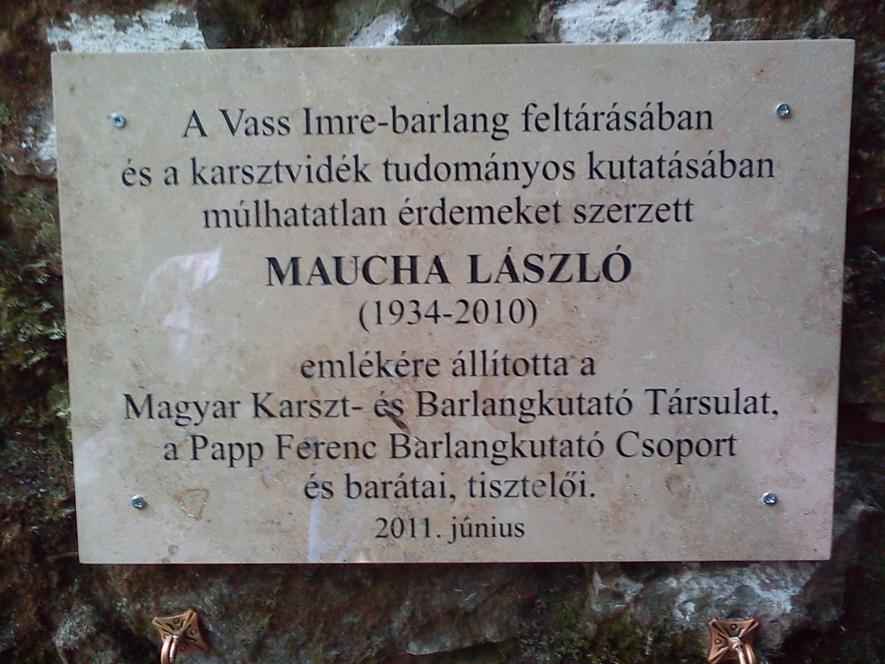 Memorial tablet of László Maucha at Vass Imre Cave, Jósvafő, Hungary